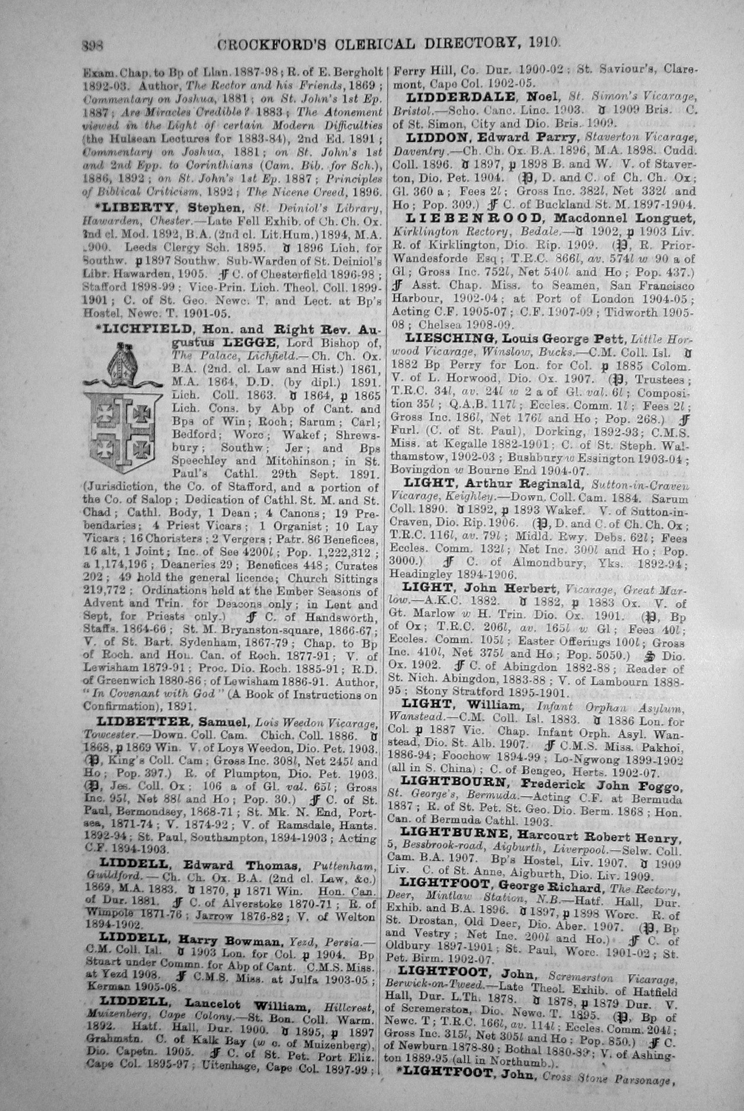 Crockford's Clerical Directory 1910 from original volume: typical page; includes entry for Augustus Legge, bishop of Lichfield